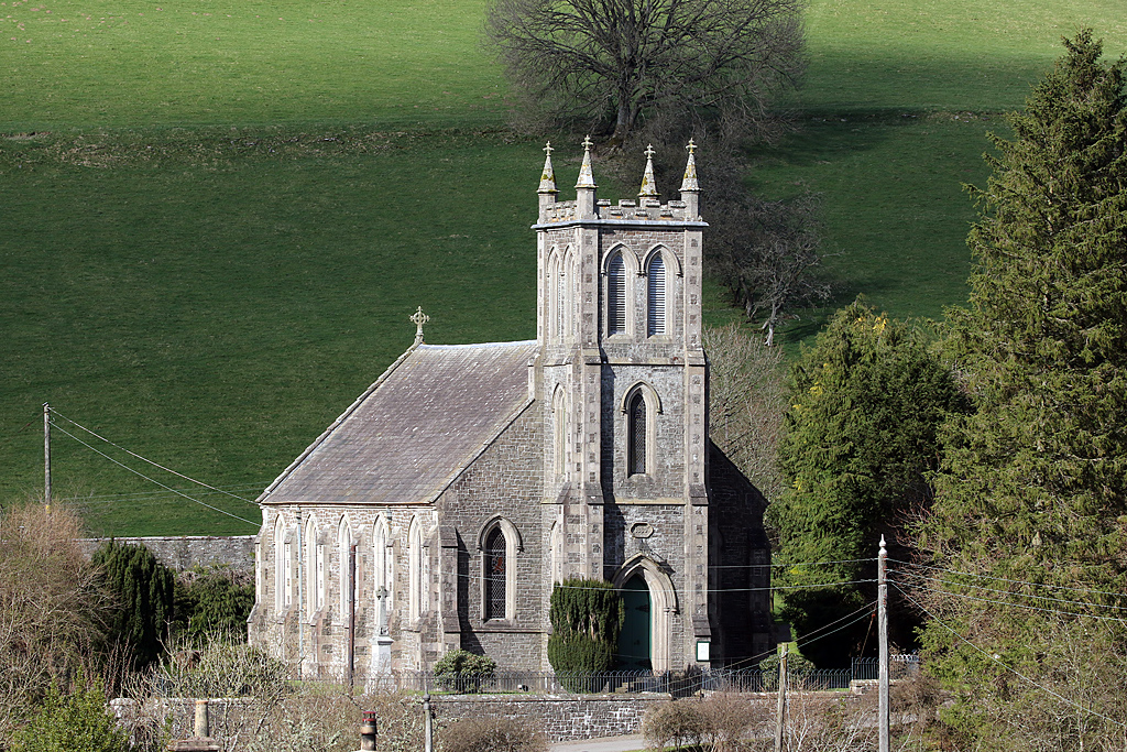 Westerkirk Parish Church, Bentpath